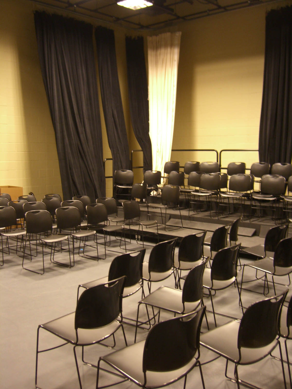 The “Black Box” at Union City High School in Union City, New Jersey. The room, which is adjacent to the school auditorium’s second floor balcony, is used by theater students for guest lectures, and is an example of some of the advanced classes offered by the school, which can provide students with up to 15 college credits by the time they graduate. Many thanks to Mayor Brian P. Stack, Superintendent of Schools Stanley Sanger, and Director of Facilities Frank Acinapura for arranging my private tours of the school, and to Head of Security Joey Orefice for conducting them personally.